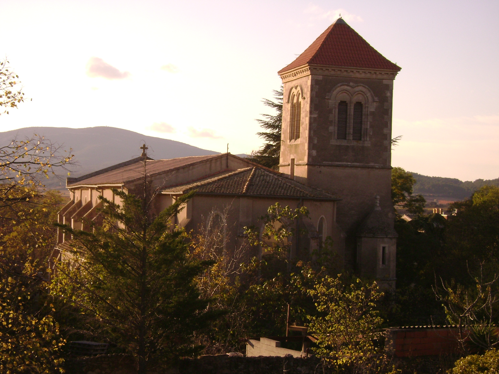 Saint Genès church of Ferrals-les-Corbières, Aude, France